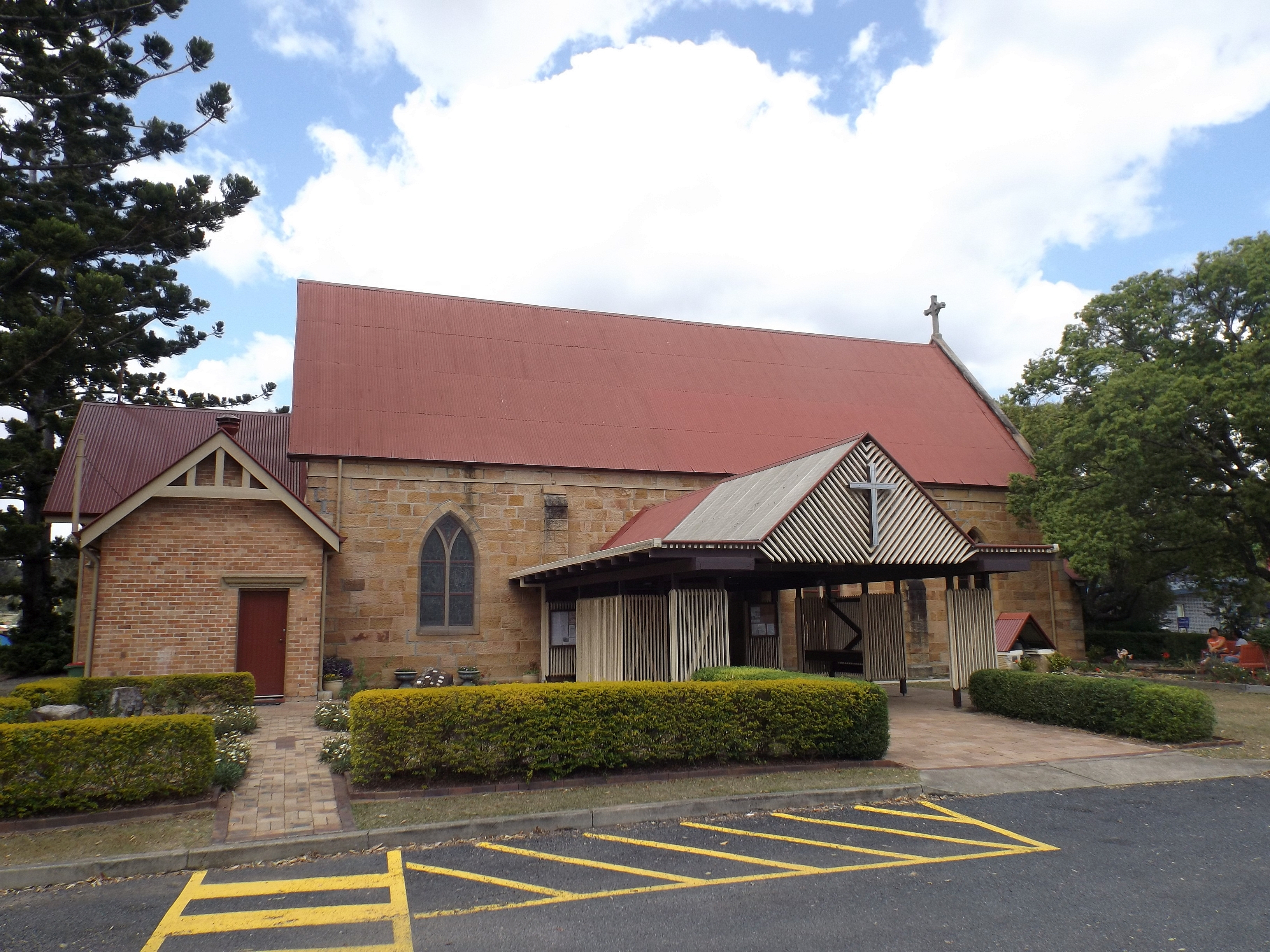 Photo of St Francis Xavier Church at Goodna, Ipswich, Queensland, Australia.